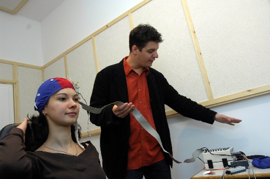 The Grastyán Endre EEG Laboratory, Szeged